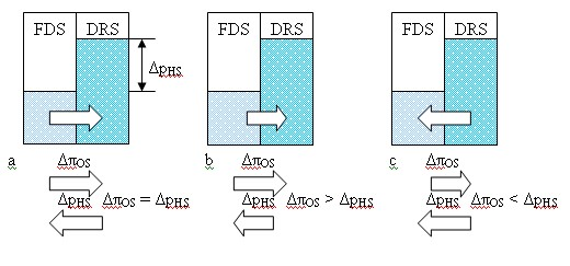 Molecular power 36. Forward osmosis, pressure-retarded osmosis and reverse osmosis